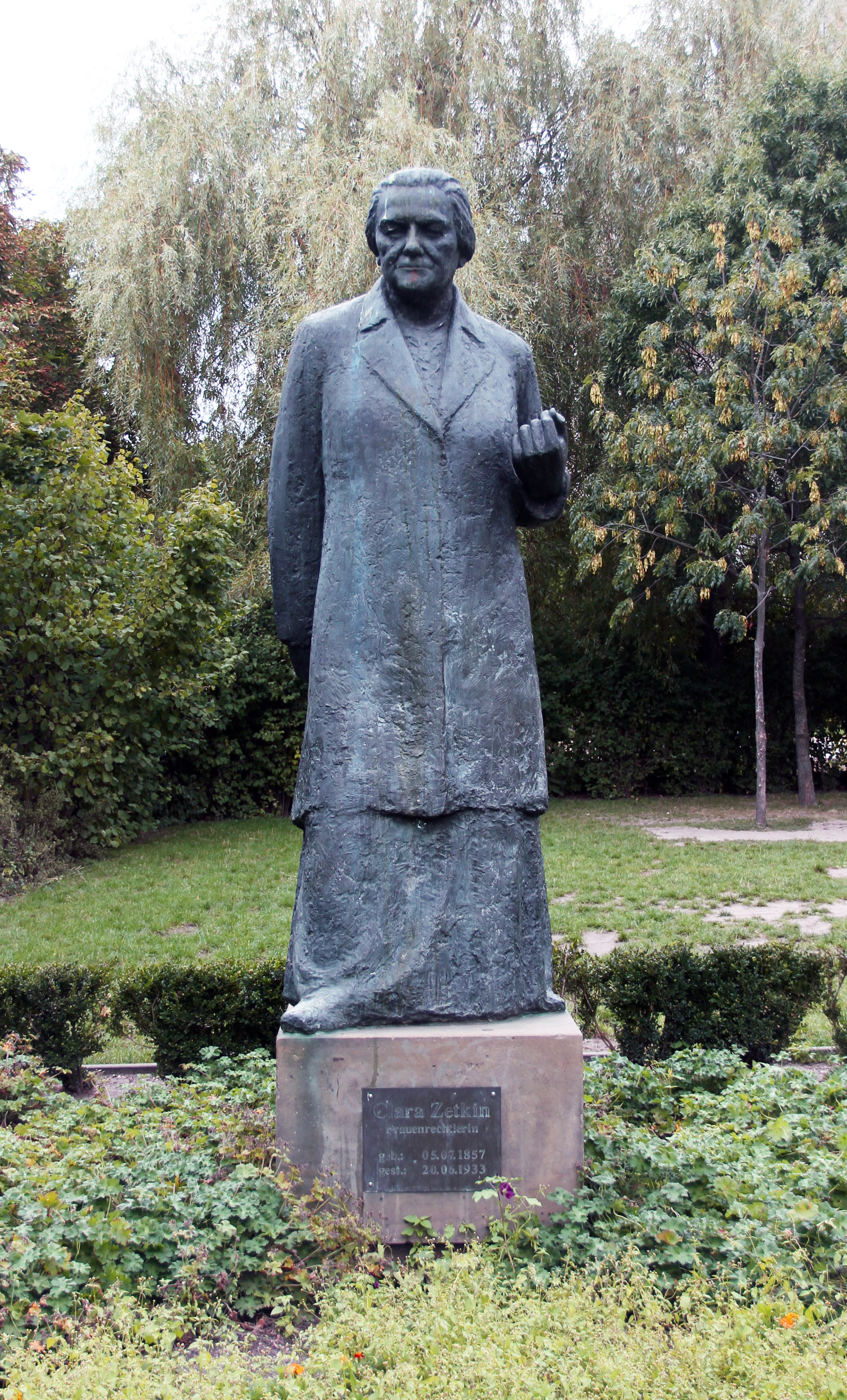 Statue, Clara Zetkin" by Gerhard Thieme, 1999, Clara-Zetkin-Park, Berlin-Marzahn, Germany